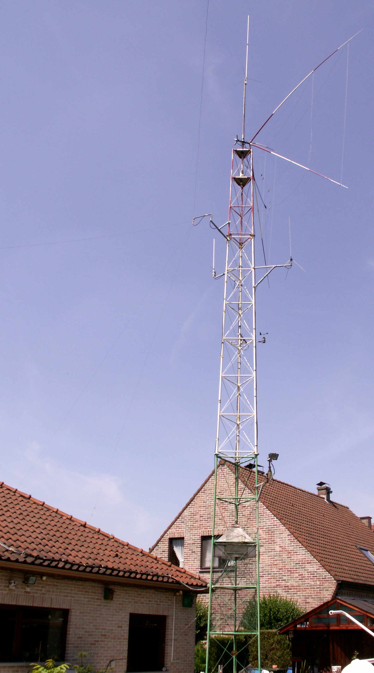 A61RJ MOHAMMED HASSAN P.O.BOX: 70006 SHARJAH UNITED ARAB EMIRATES QSL: Direct Qsl via Hme Call Good DX to all my friends throughout the world! 73,88 Thanks and God bless you,Greeting from UAE , 73 A61RJ MOHAMMED